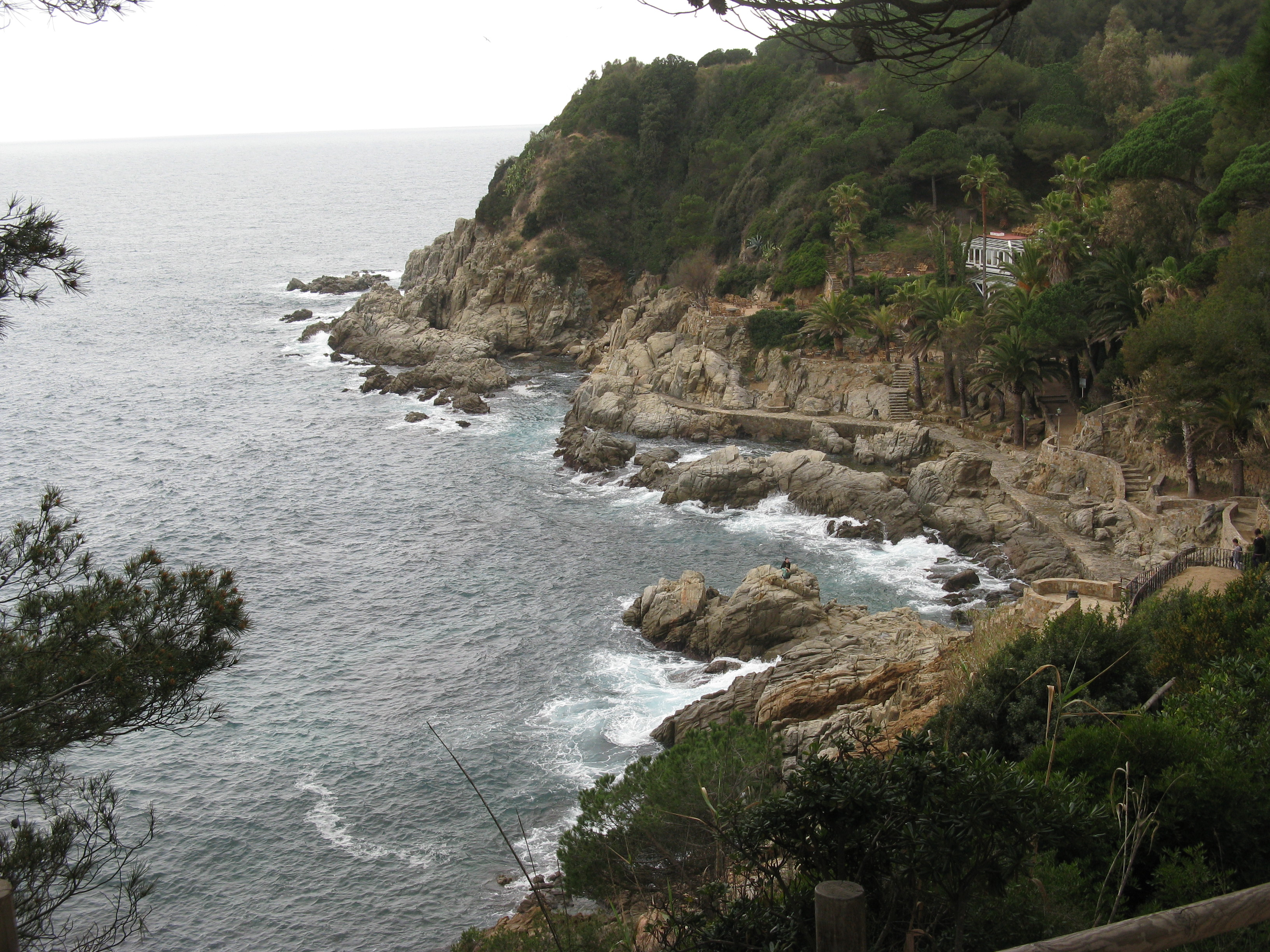 Beach of Lloret de Mar.